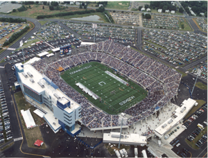 Rentschler Field at the University of Conneticut